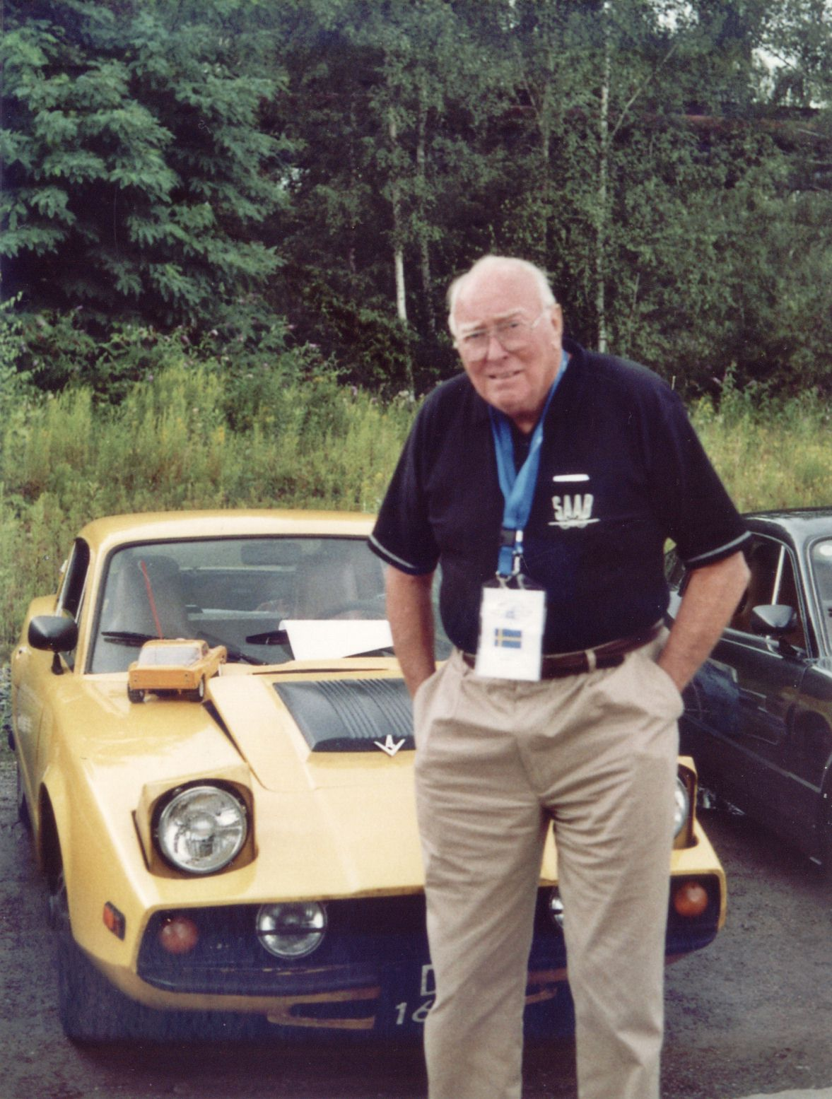 Erik Carlsson and 1972 SAAB Sonett III, August 7, 2005, International SOC, Essen, Germany.